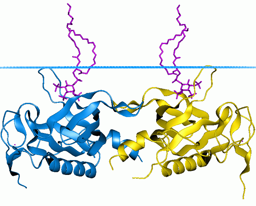 Pleckstrin homology domain (PH domain) of tyrosine-protein kinase BTK Protein image from OPM database